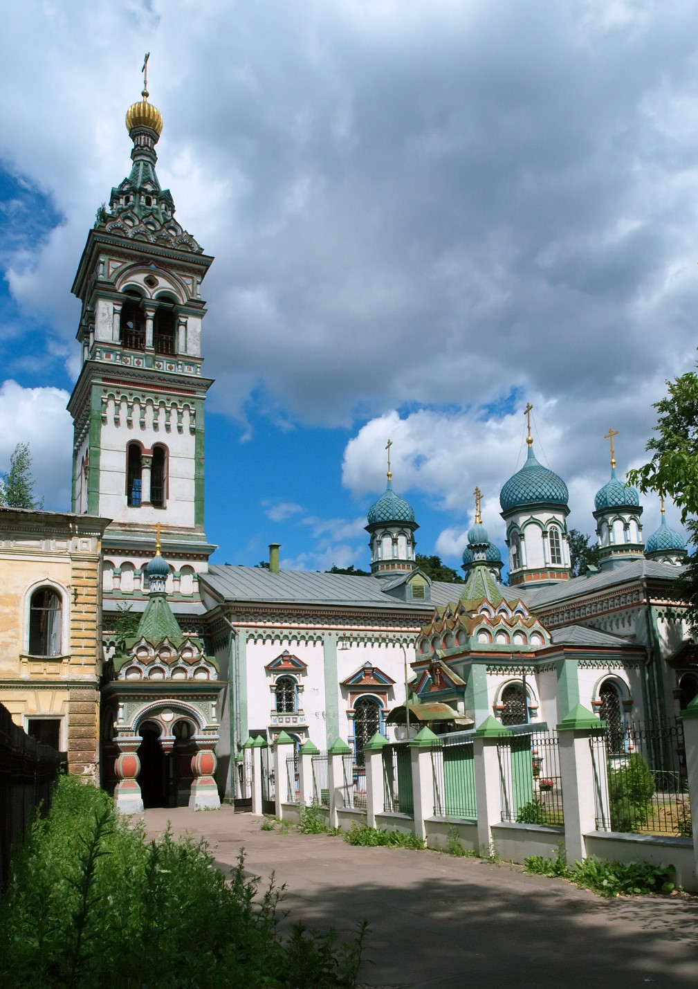 Church of St. Nicholas in Rogozhskoe cemetery. Built in 1775, present-day appearance since 1860-s. Originally operated by Edinoverie old believers, currently - by mainline Orthodox church.